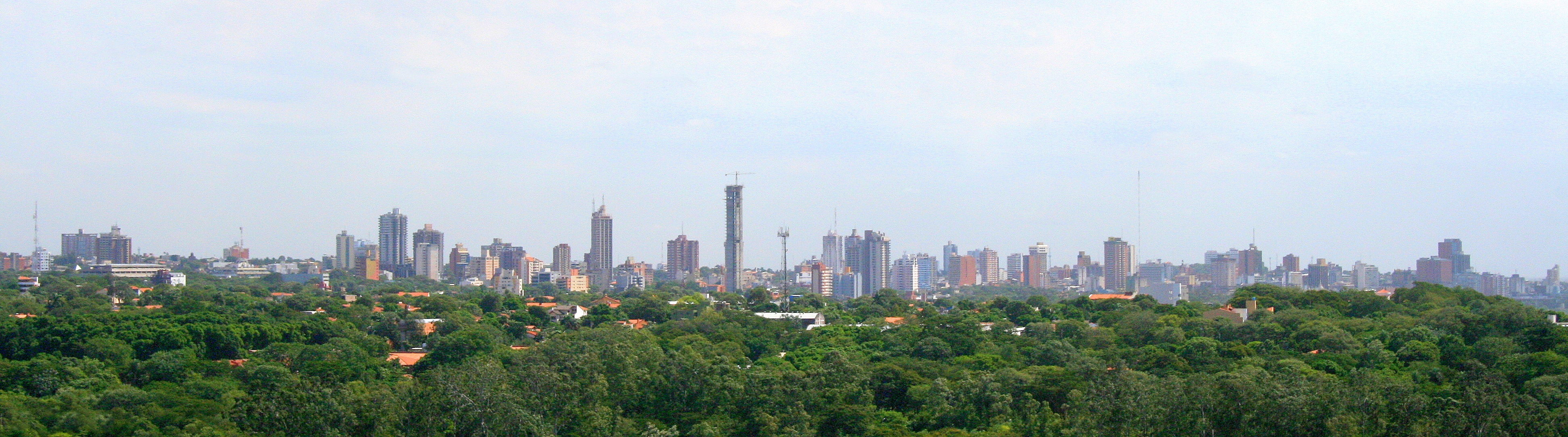 Asunción city, the capital of Paraguay.